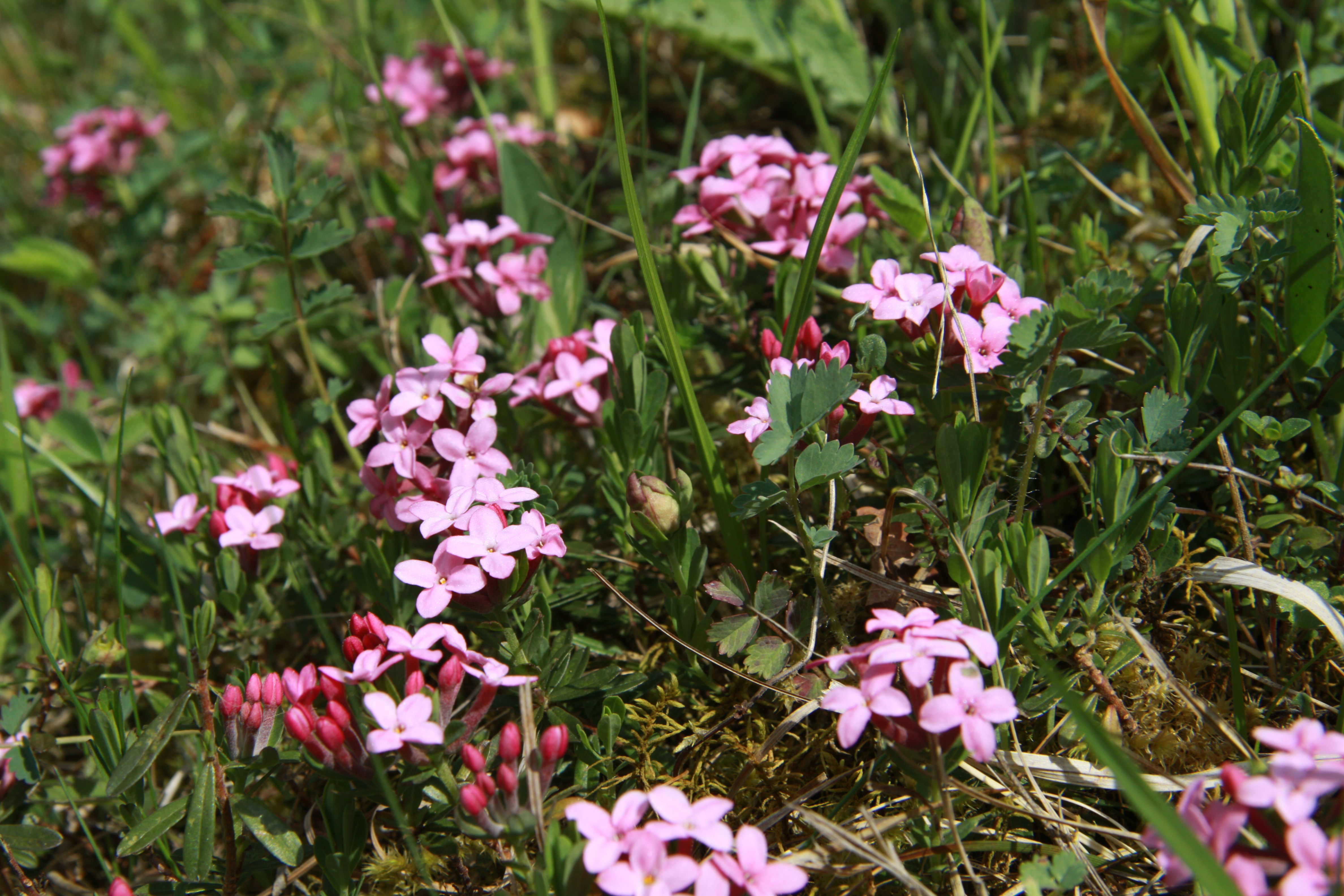 Daphne cneorum in natural monument Branžovy. Photo was taken during wikitrip with botanist under covere of WikiProject Protected areas near Loděnice, Czech Republic Project: Fotíme Česko.